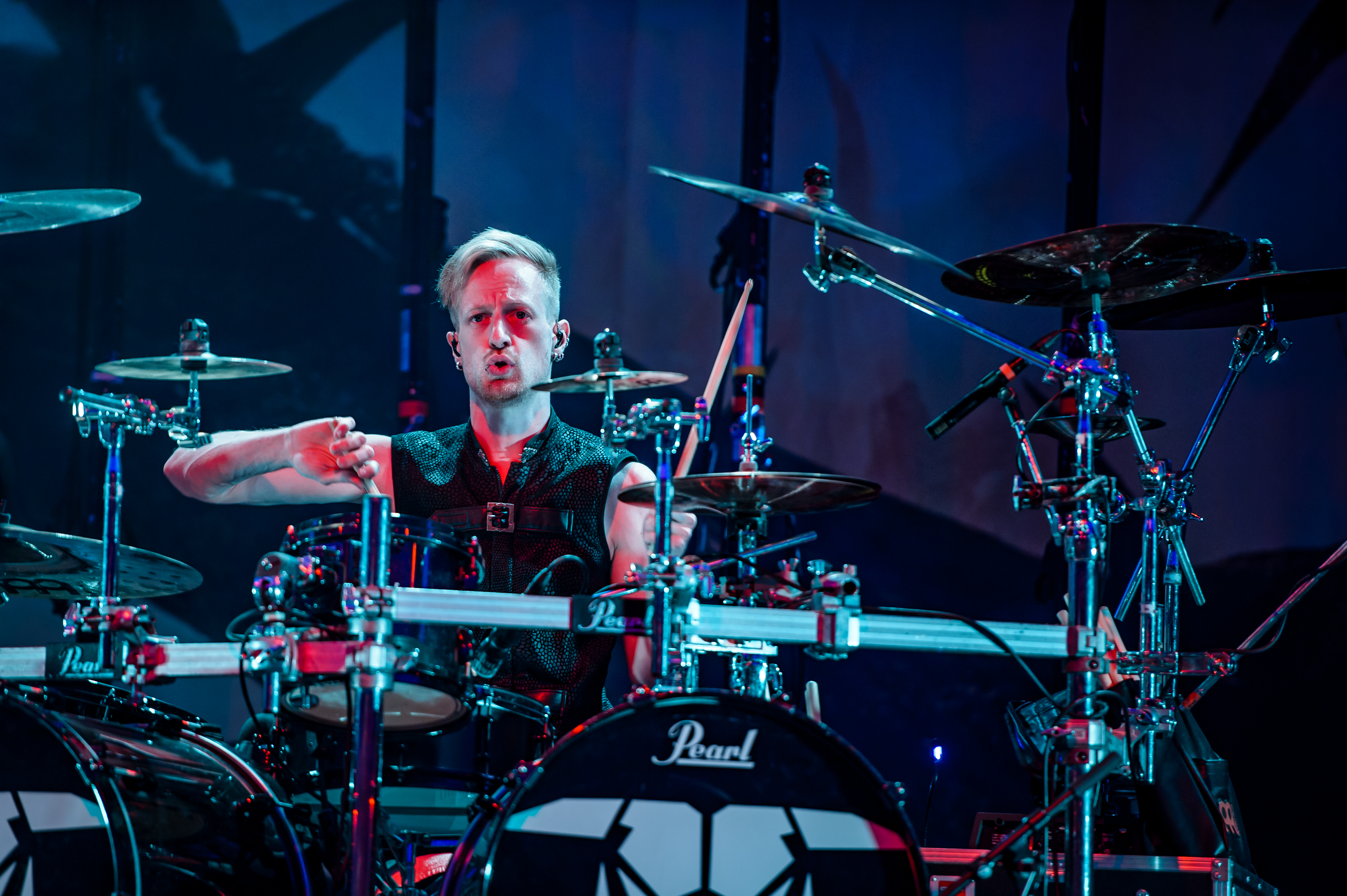 Subway to Sally; RockFels 2016 - Loreley